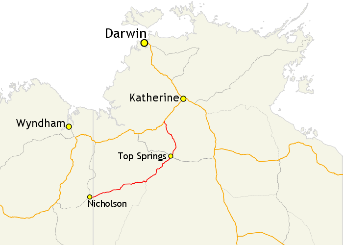 Map of Buntine Highway (shown in red) and surrounding road network in north-western Australia.